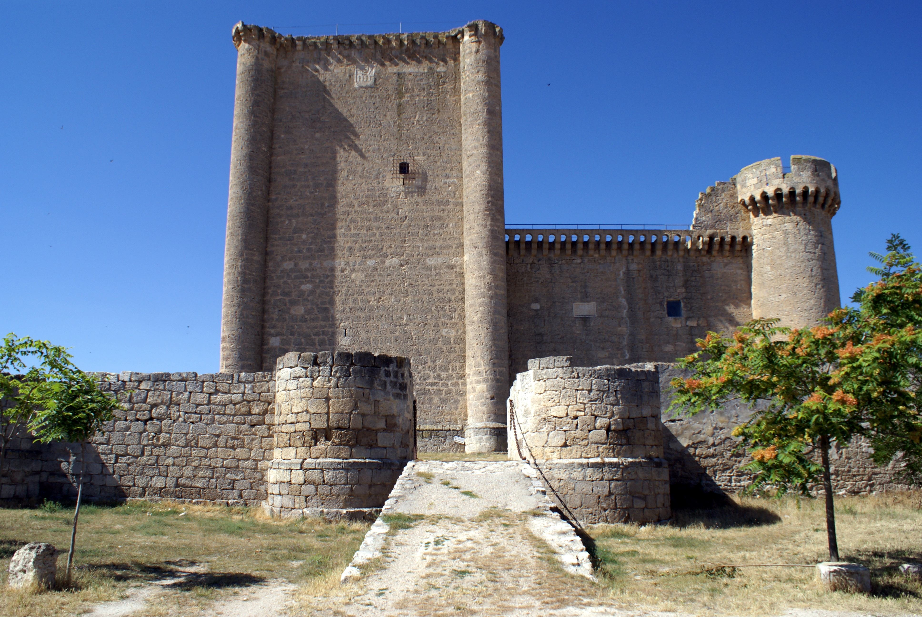 Castle of Villafuerte de Esgueva, Valladolid, Spain